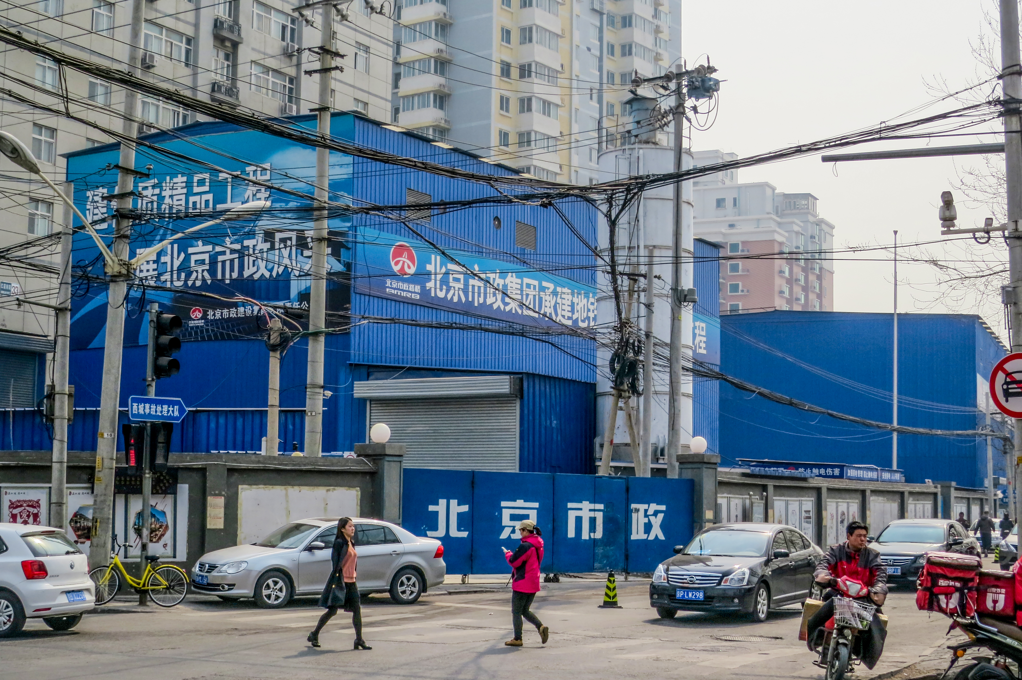 Not so much space for this station seemingly.